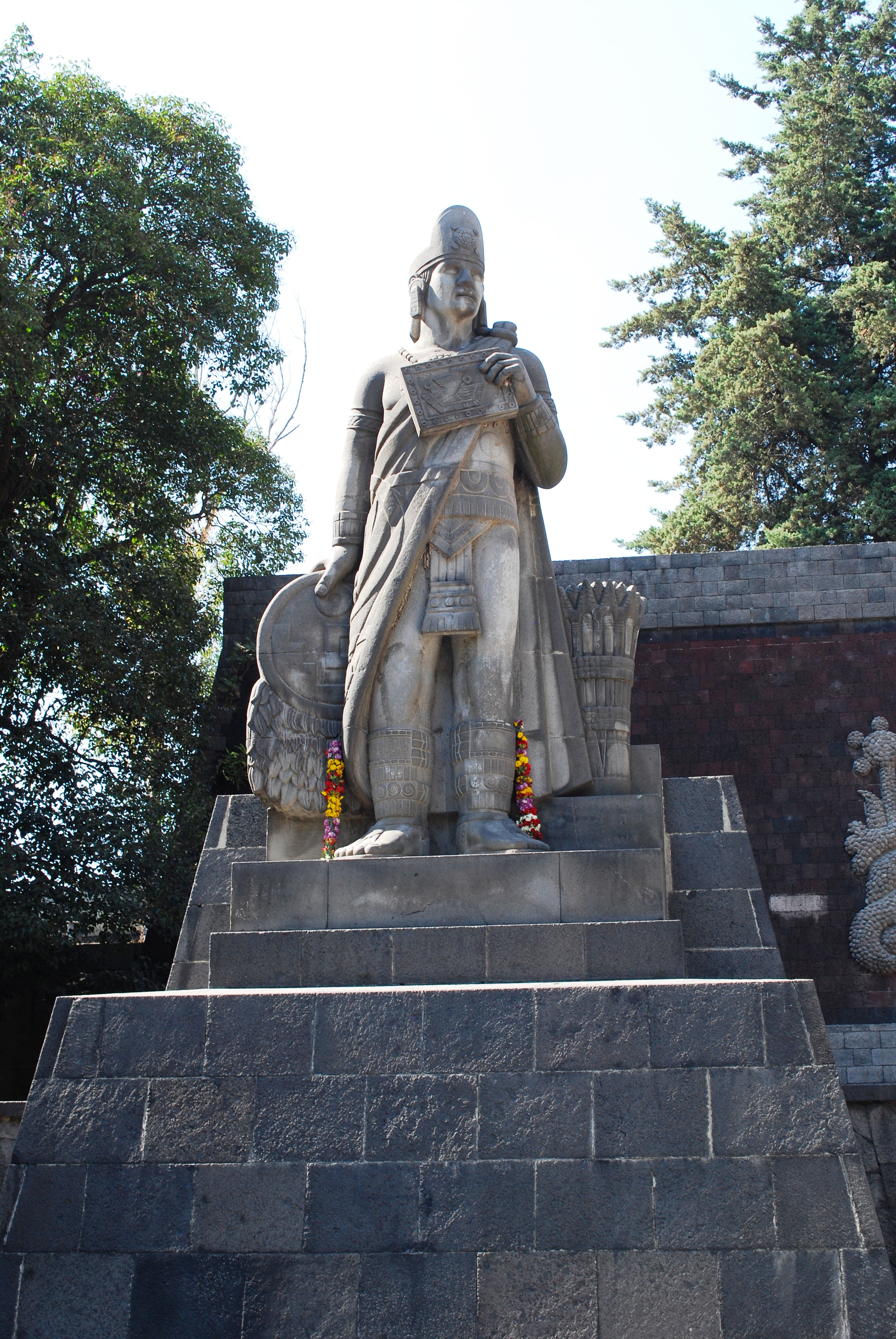 Statue of Nezahualcoyotl as part of a fountain and monument to him in Chapultepec Park, Mexico City